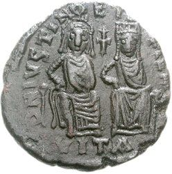 Justin and Sophia. Half Follis (9.66 g, 5h). Struck circa 574/5-577/8 AD in Carthage during the reign of the byzantine king Justin II (565-578 AD).